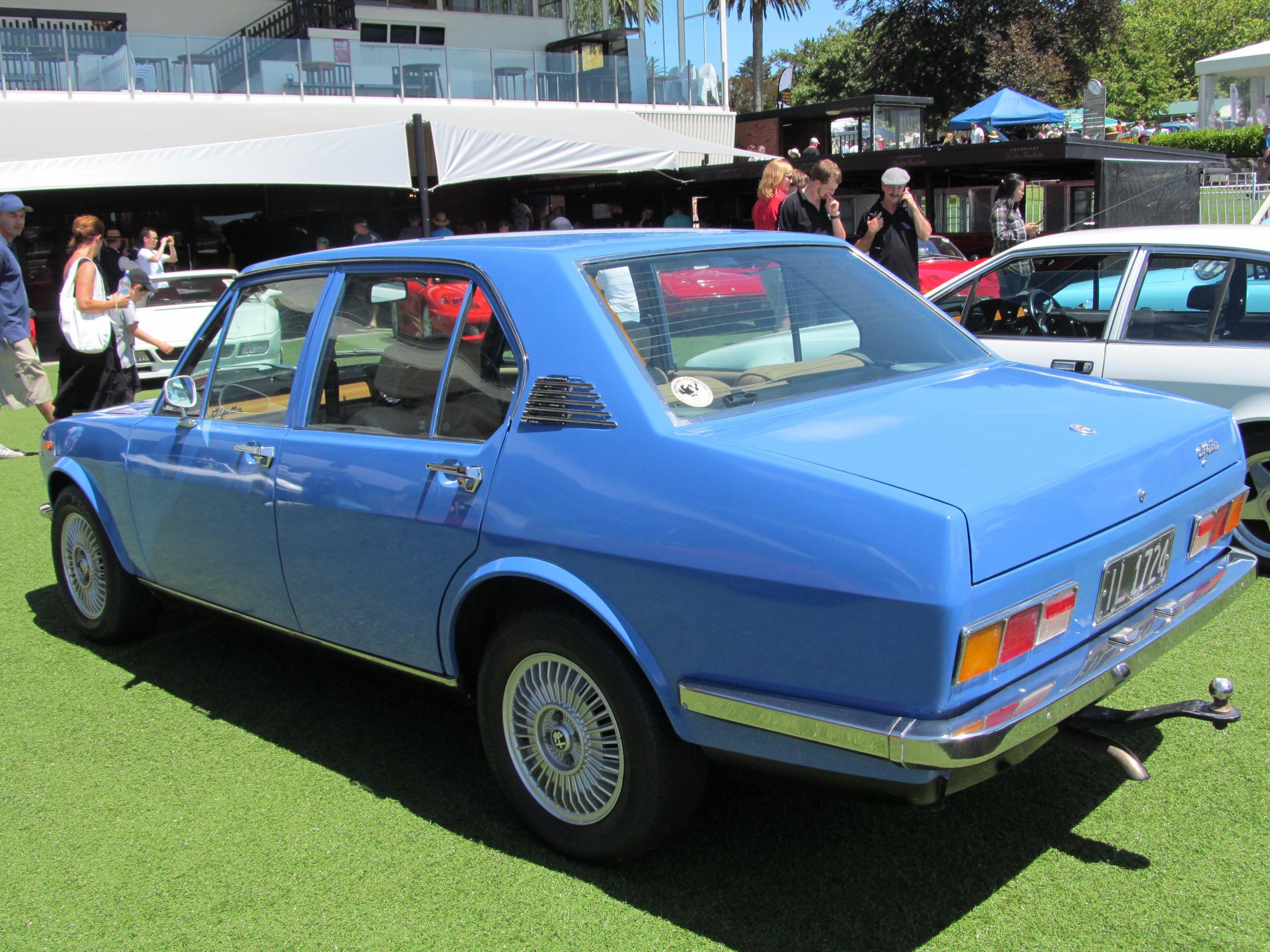 IL1724 The rear of these look a lot like the Fiat 132 of the same period, but that may not be a coincidence given it's an Alfa... Lots of other Italian stallions visible here too!